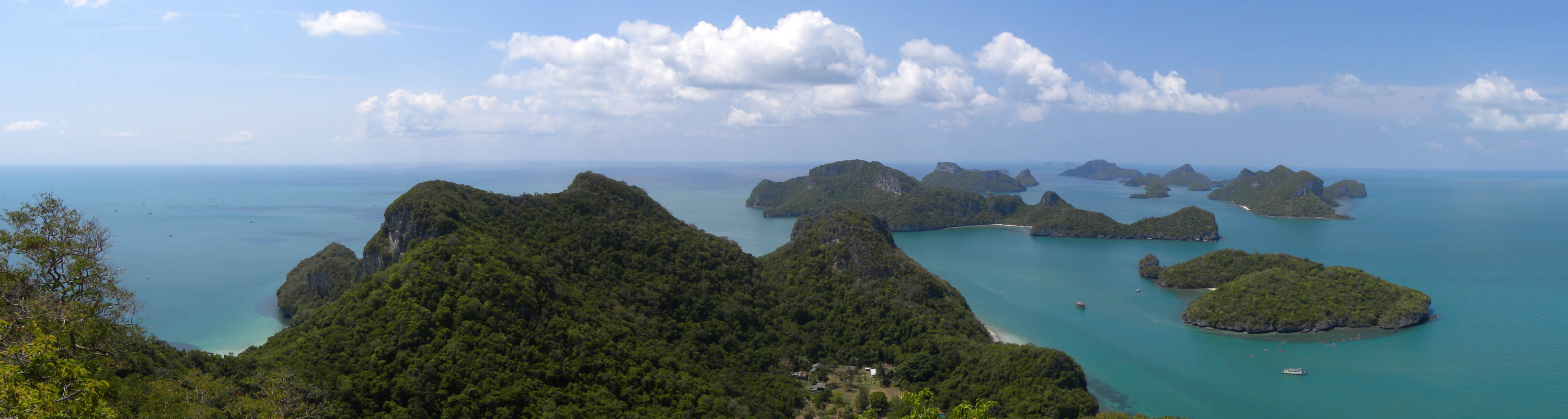 Panorama of Ang Thong National Park from the view point of Ko Wua Talab